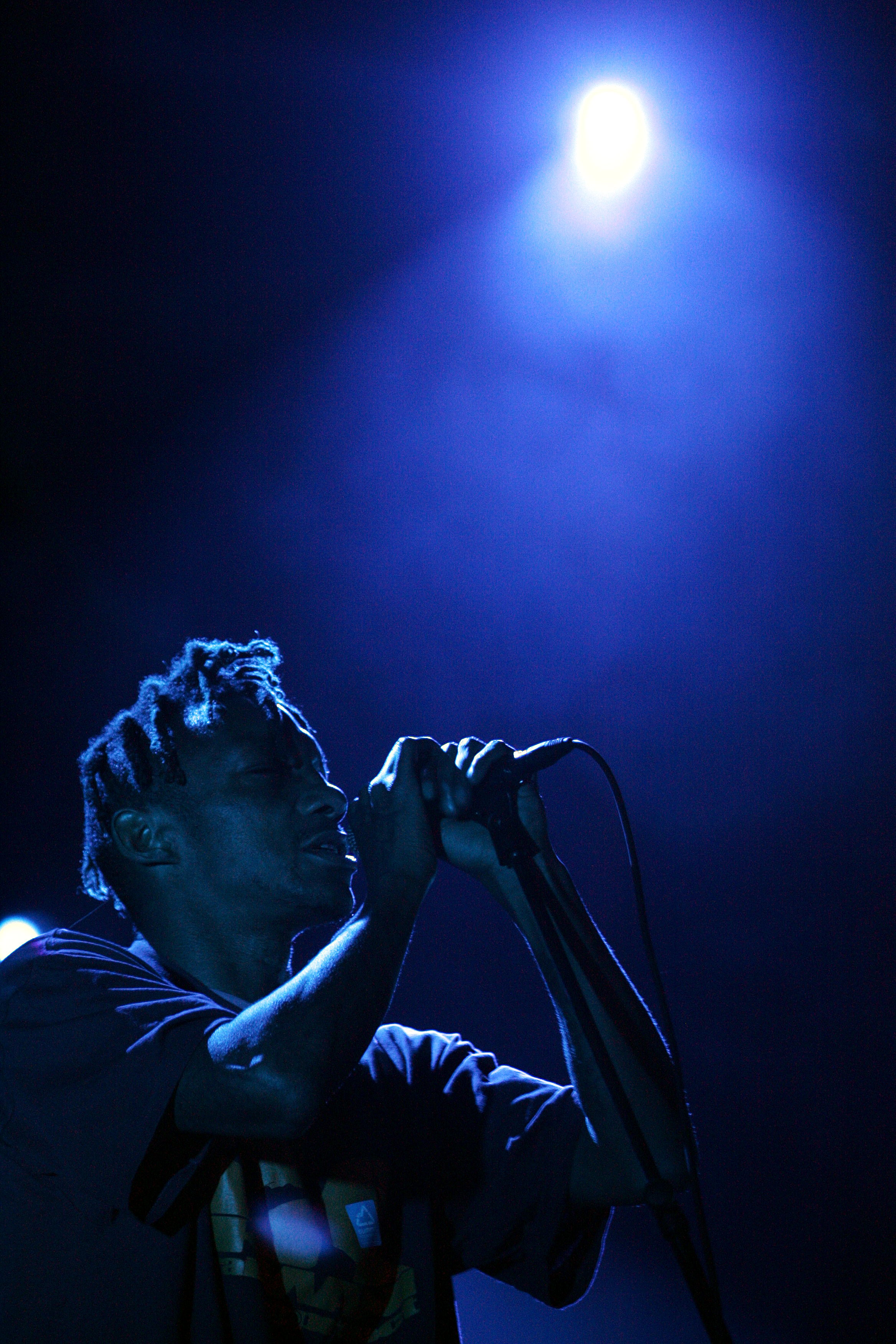 Tricky at Pully For Noise festival 2008